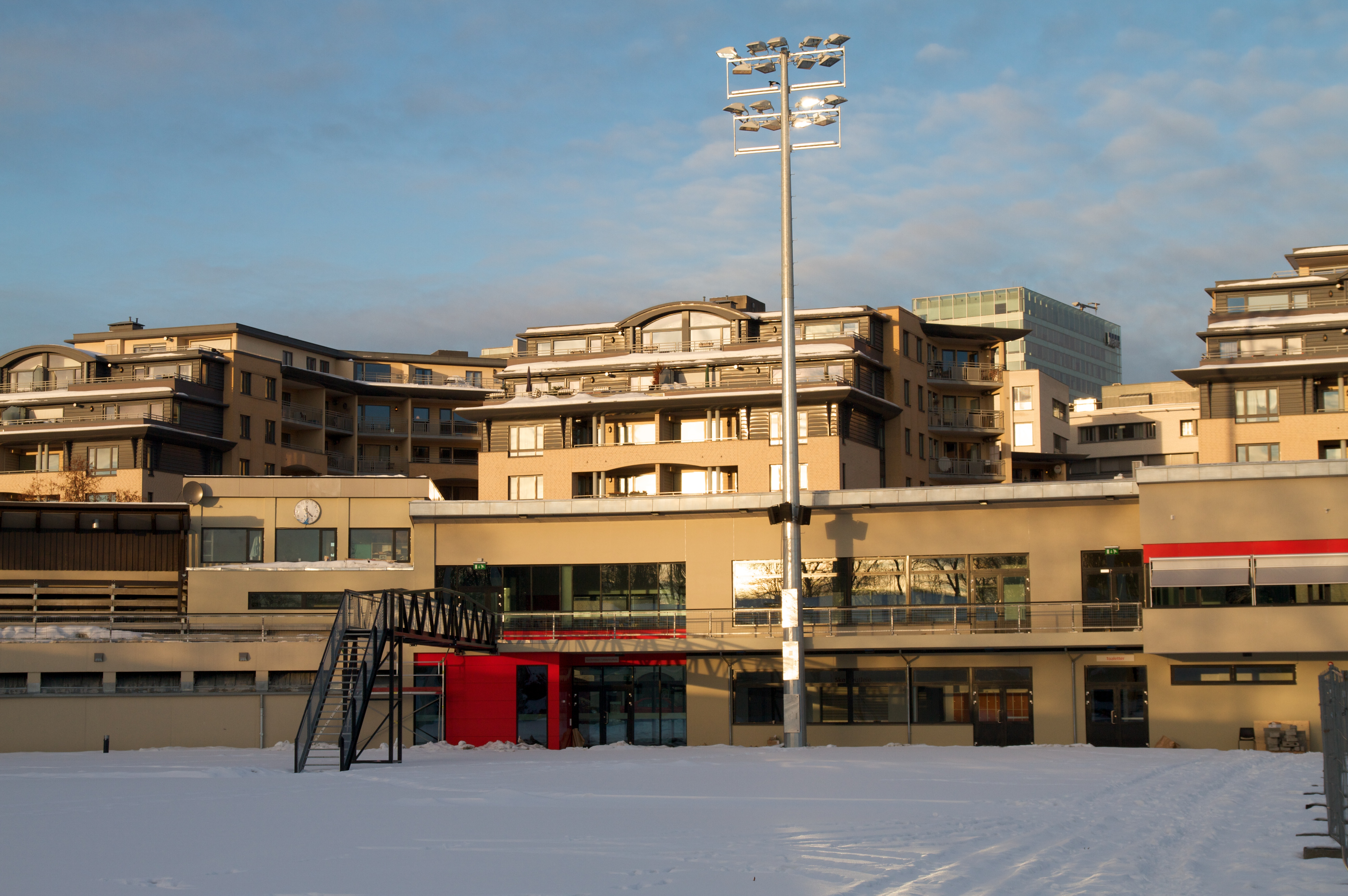 Frogner stadion, Oslo, Norway.